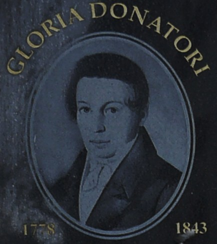 Erdman Jozef Tschirsch from Zabkowice Slaskaie PL. Table in the Bonifratrow Church.